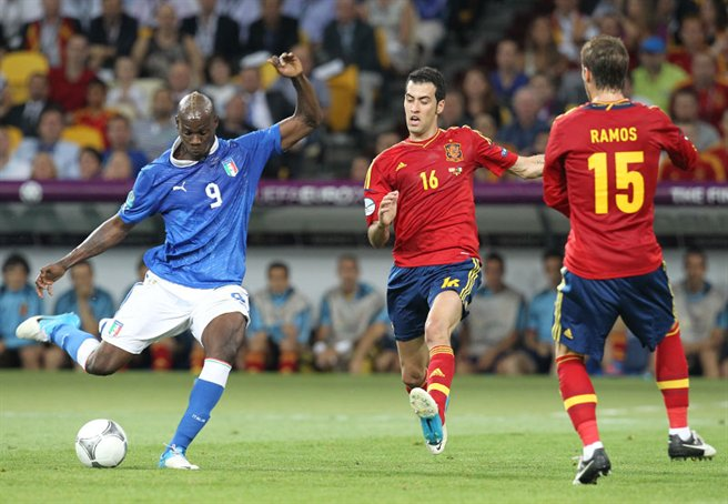 Mario Balotelli shot at Euro 2012 final Spain-Italy